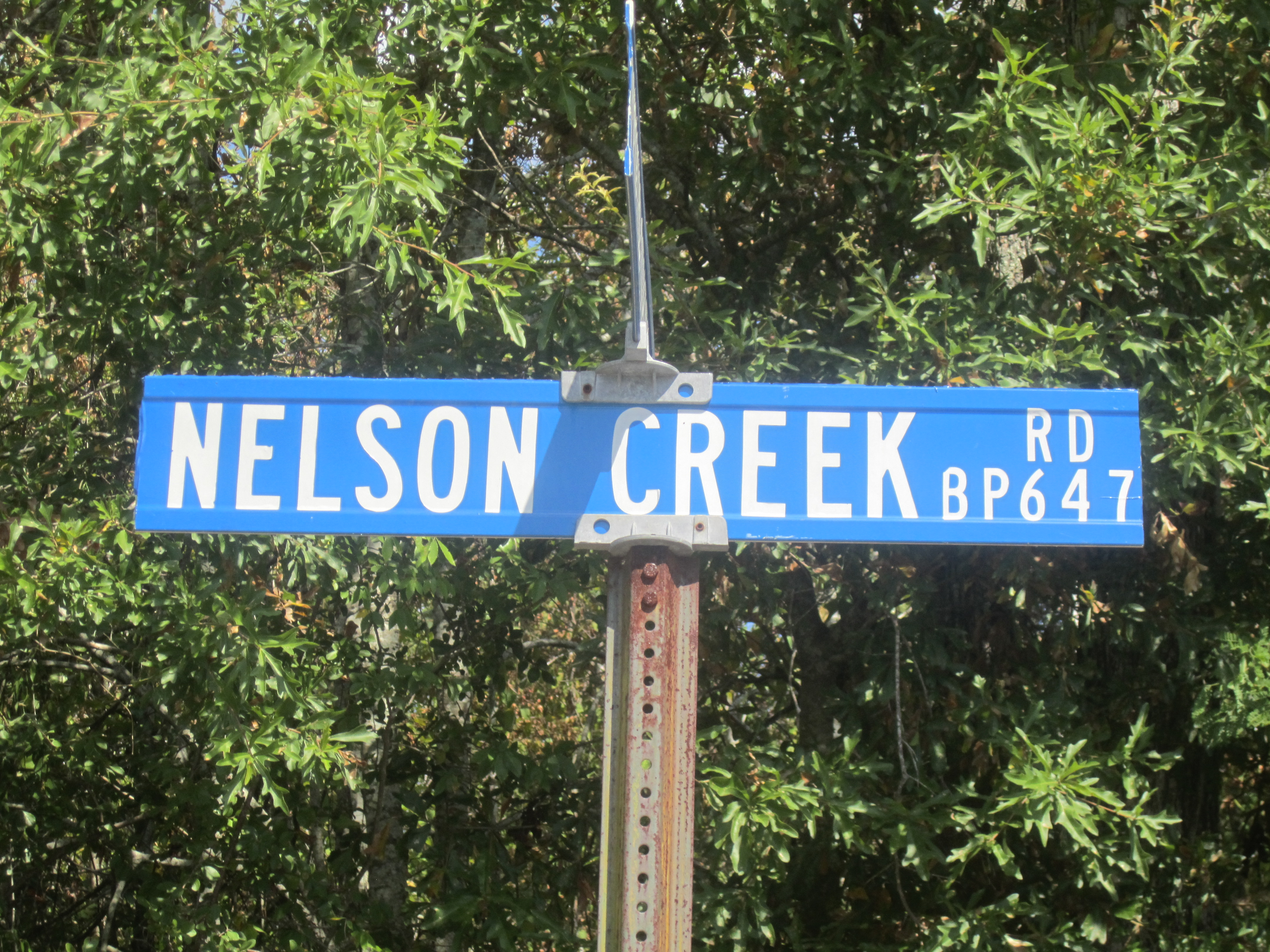 I took photo with Canon camera of Nelson Creek Road sign in Bienville Parish, LA.